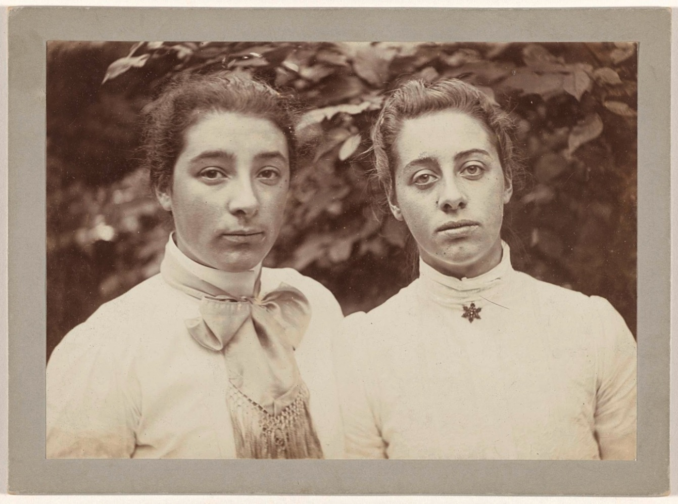 Elise en Dora Arntzenius